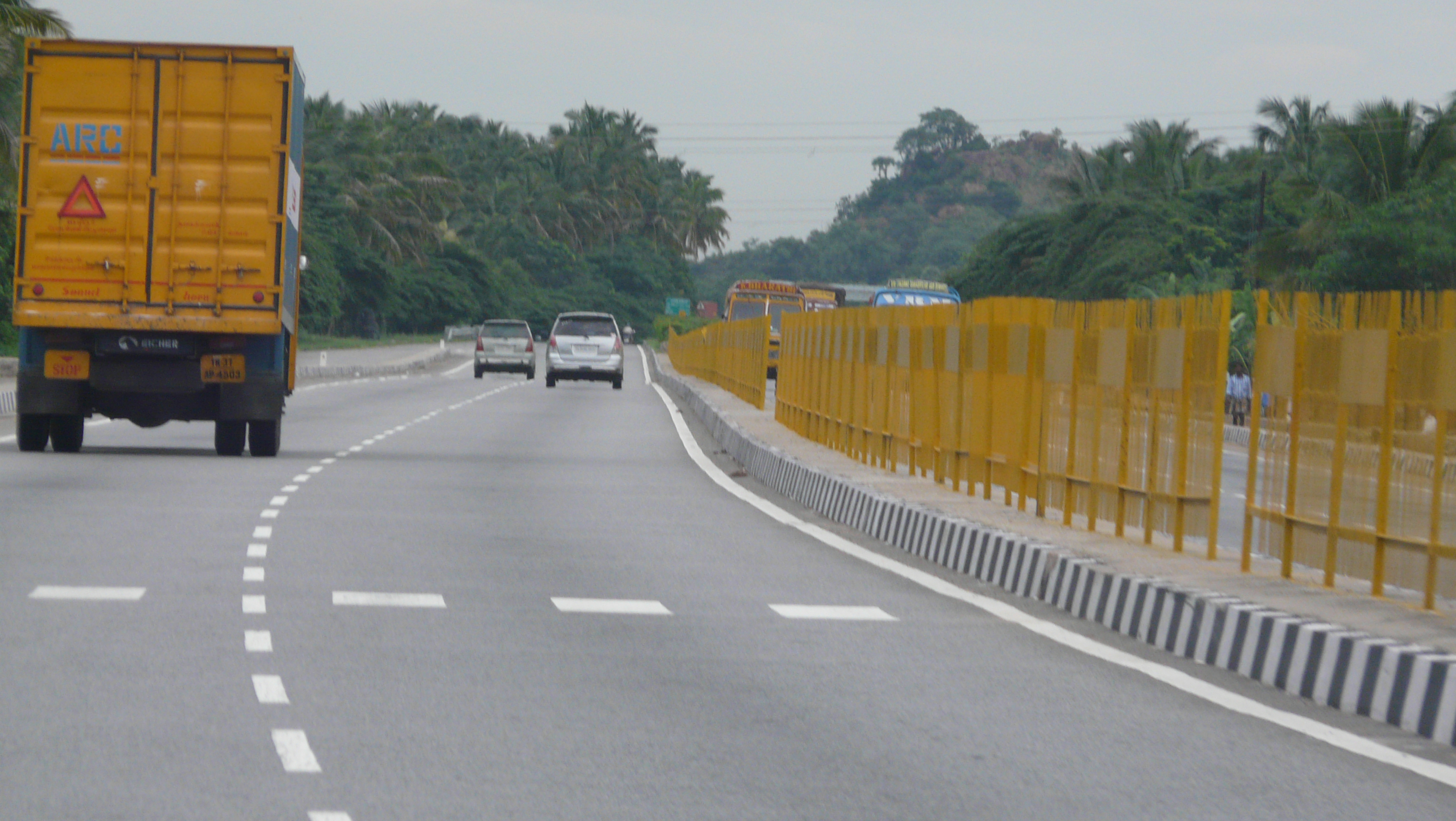 NH48 (Former NH 4) in Karnataka, India.